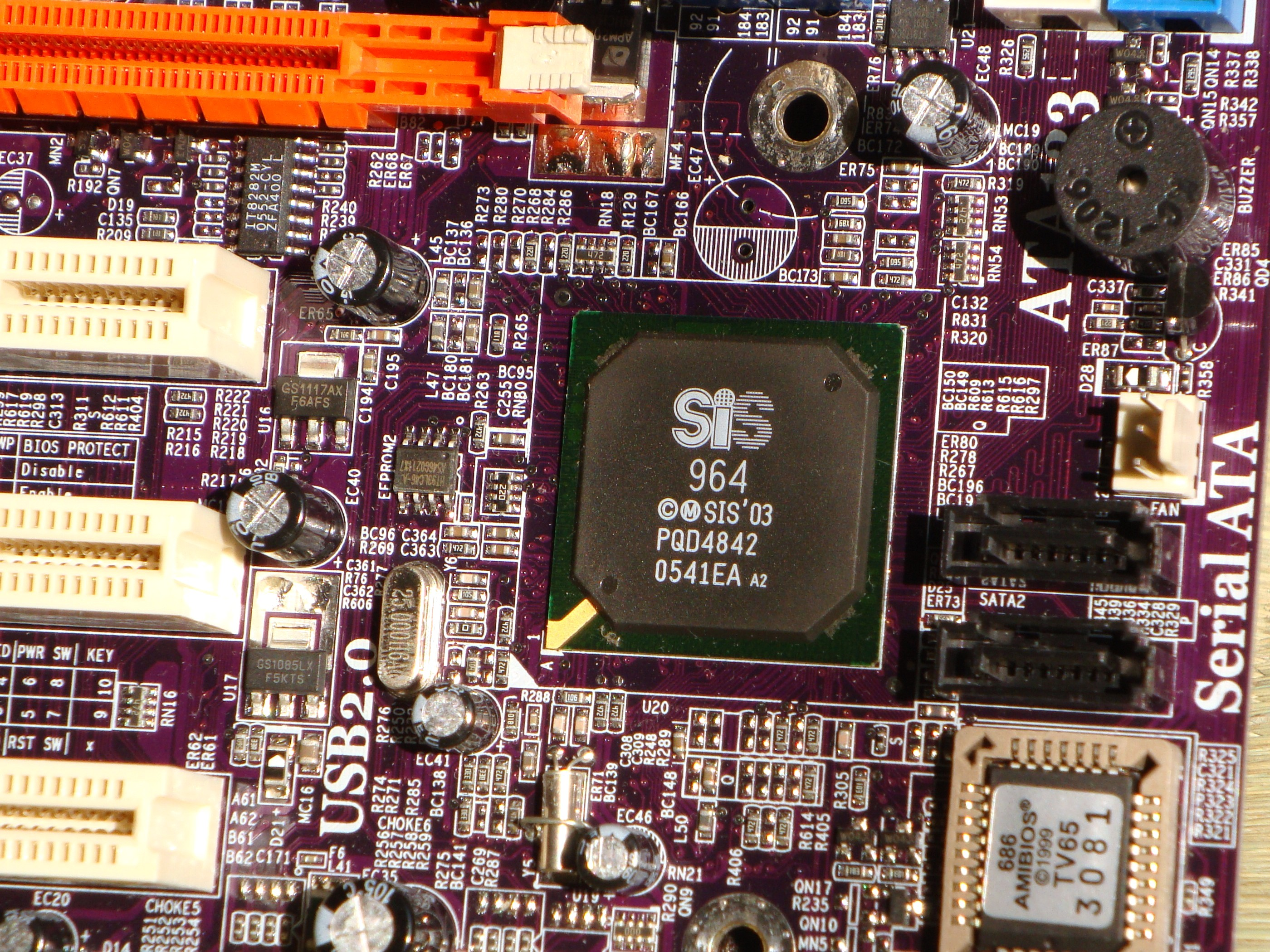 SiS 964 South Bridge.